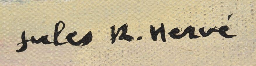 Signature of Jules-René Hervé